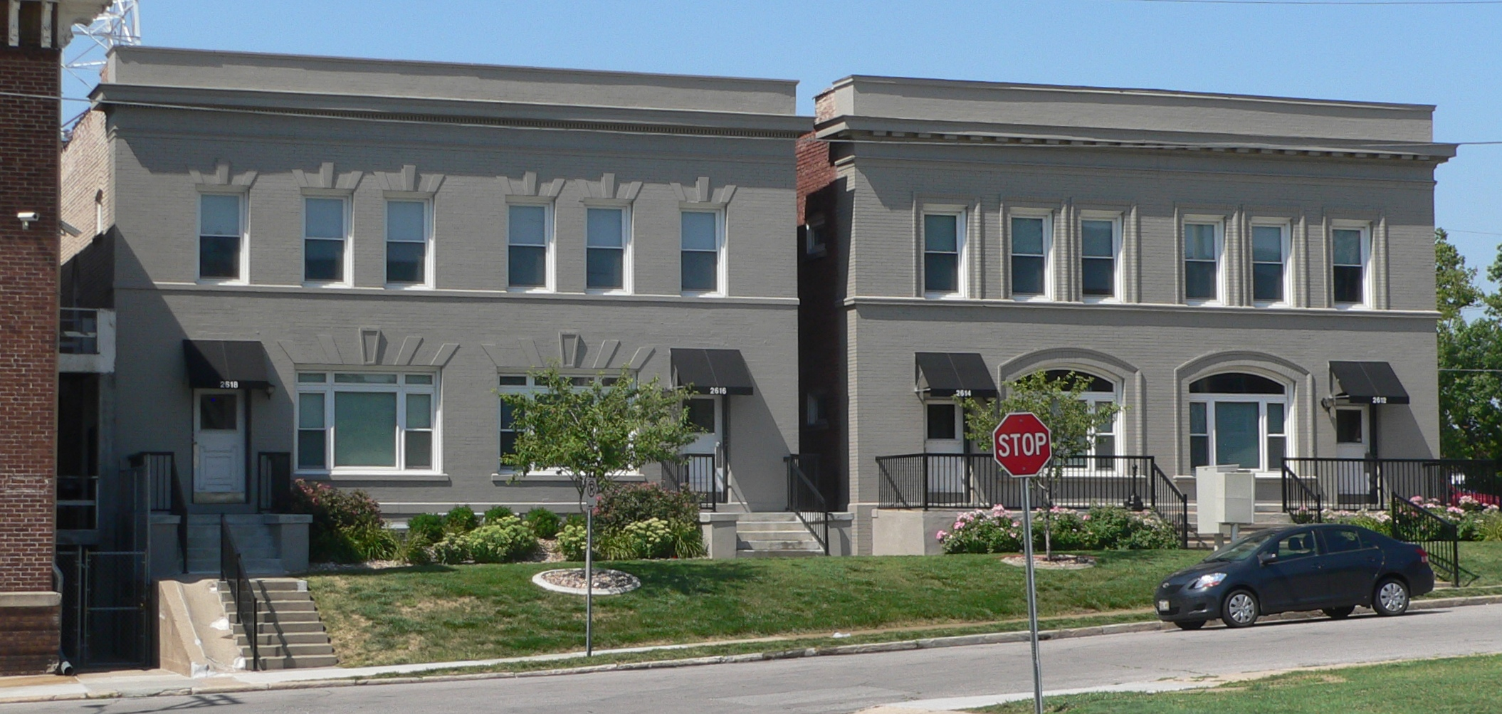 Moyer Row Houses in Omaha, Nebraska; seen from the southwest. The western (left) building is at 2616 and 2618 Dewey; the eastern (right) building is at 2612 and 2614 Dewey.